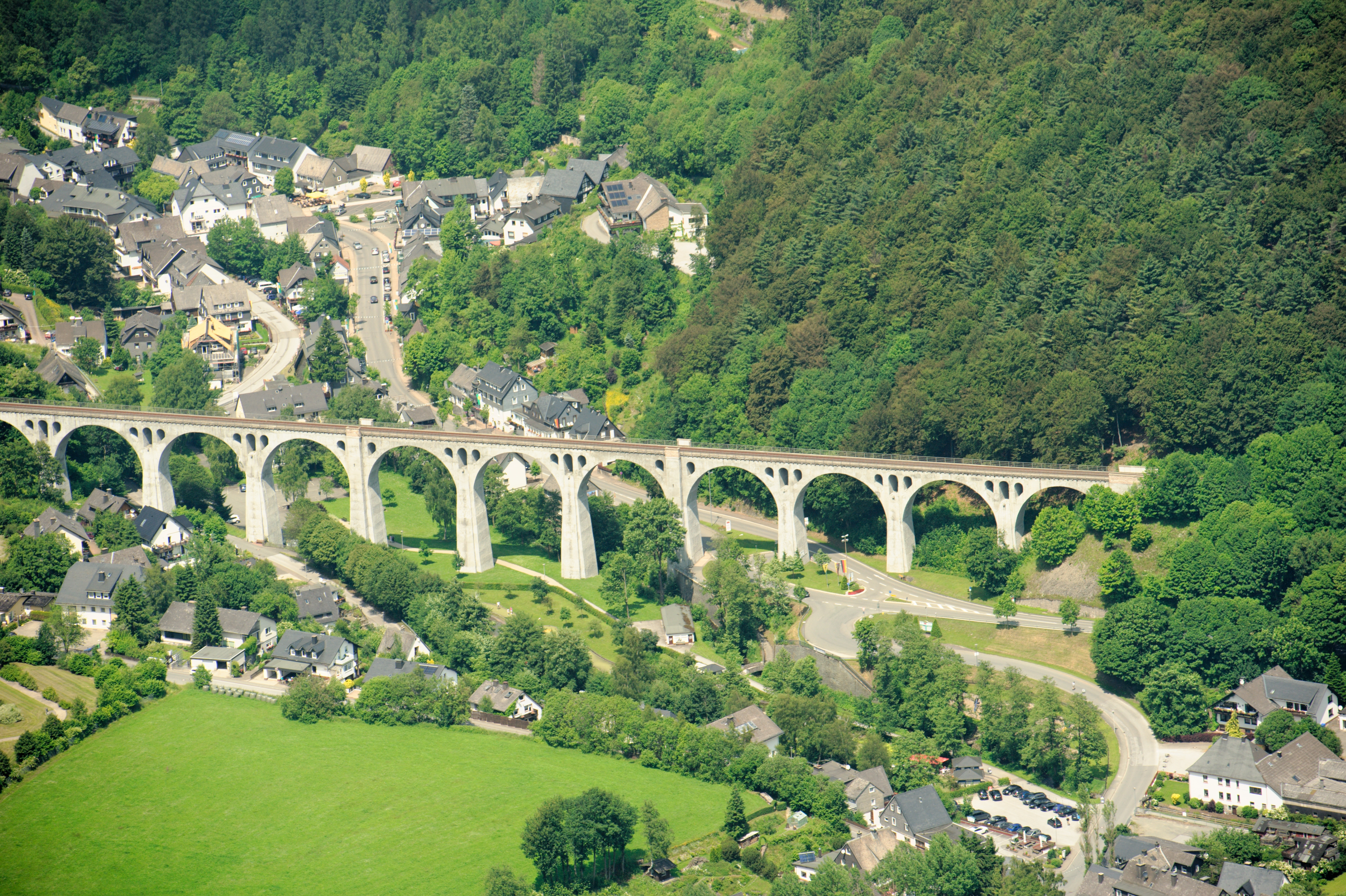 Fotoflug Sauerland-Ost; Viadukt Willingen The making of this document was supported by the Community-Budget of Wikimedia Germany.